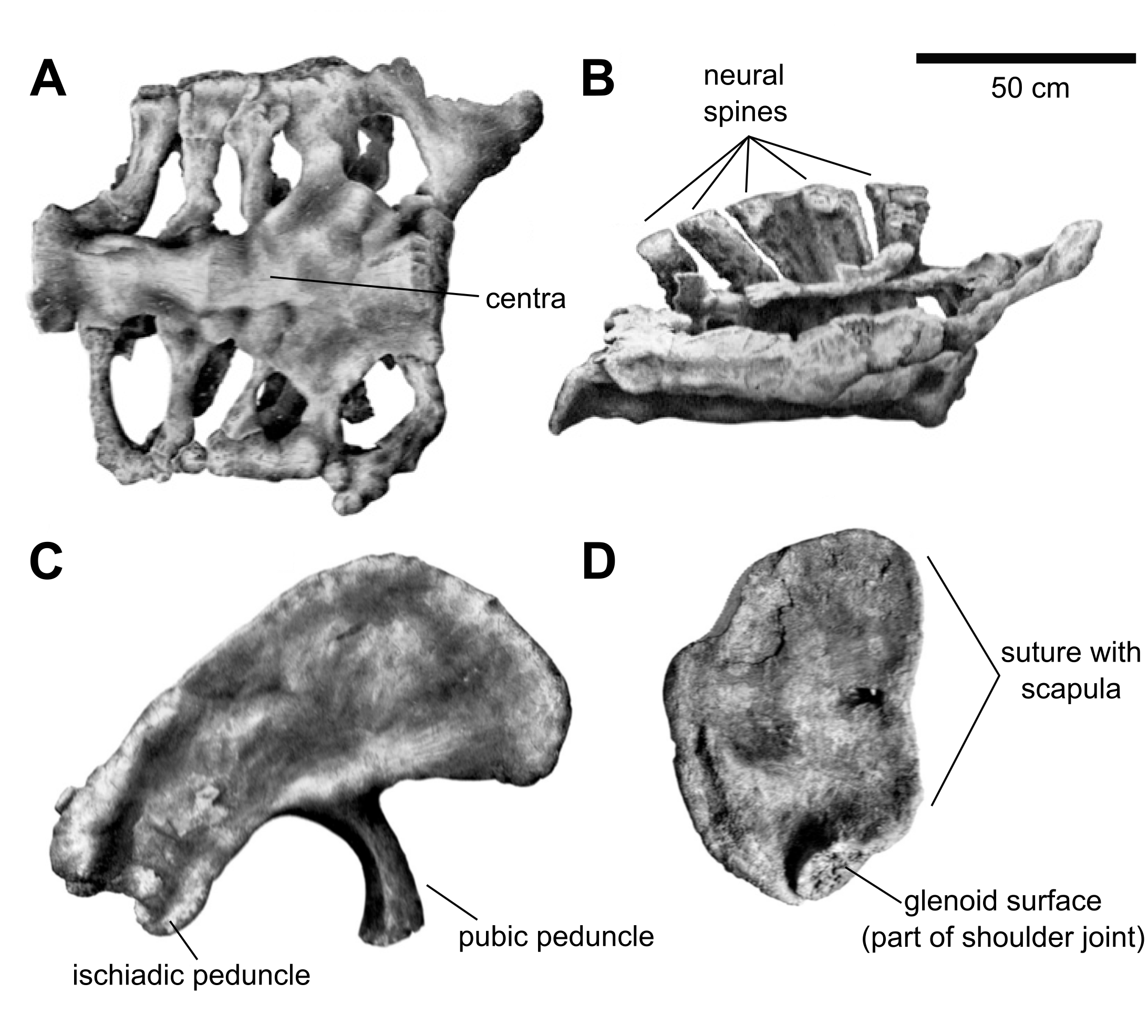 Osteology of Brachiosaurus alithorax. Top left: Sacrum in bottom view. Top right: Sacrum in right side view. Bottom left: Right Ilium in side view. Botton right: Left coracoid in side view.